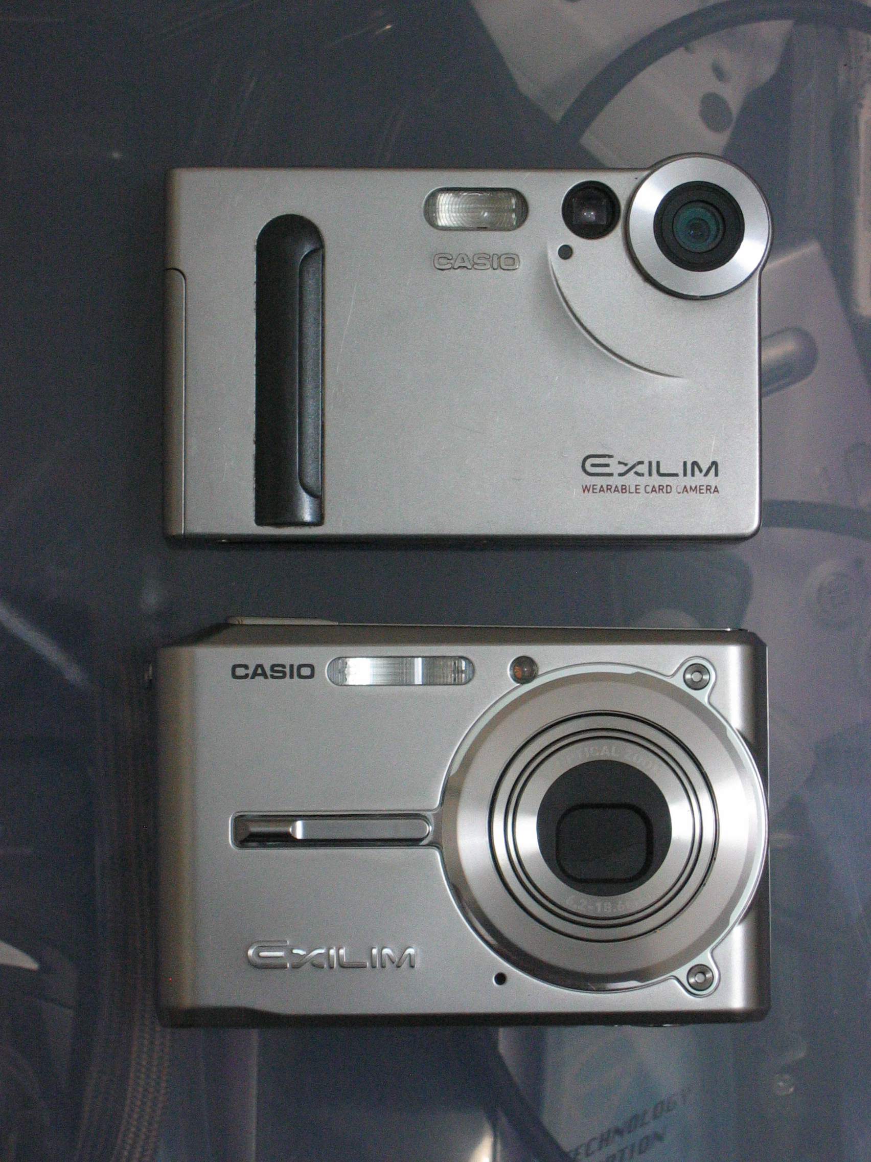 Casio Exilim EX-S1 and EX-S600 – first and latest models. No flash, manual white balance (taken from one of the cameras). The background is a translucent plastic box of camera parts, including an Exilim EX-M2 cradle at top right and the EX-M2 it came with at mid-right. Original camera JPEG from a Canon Ixus 430, unedited, rotated 90 degrees with jpegtran.